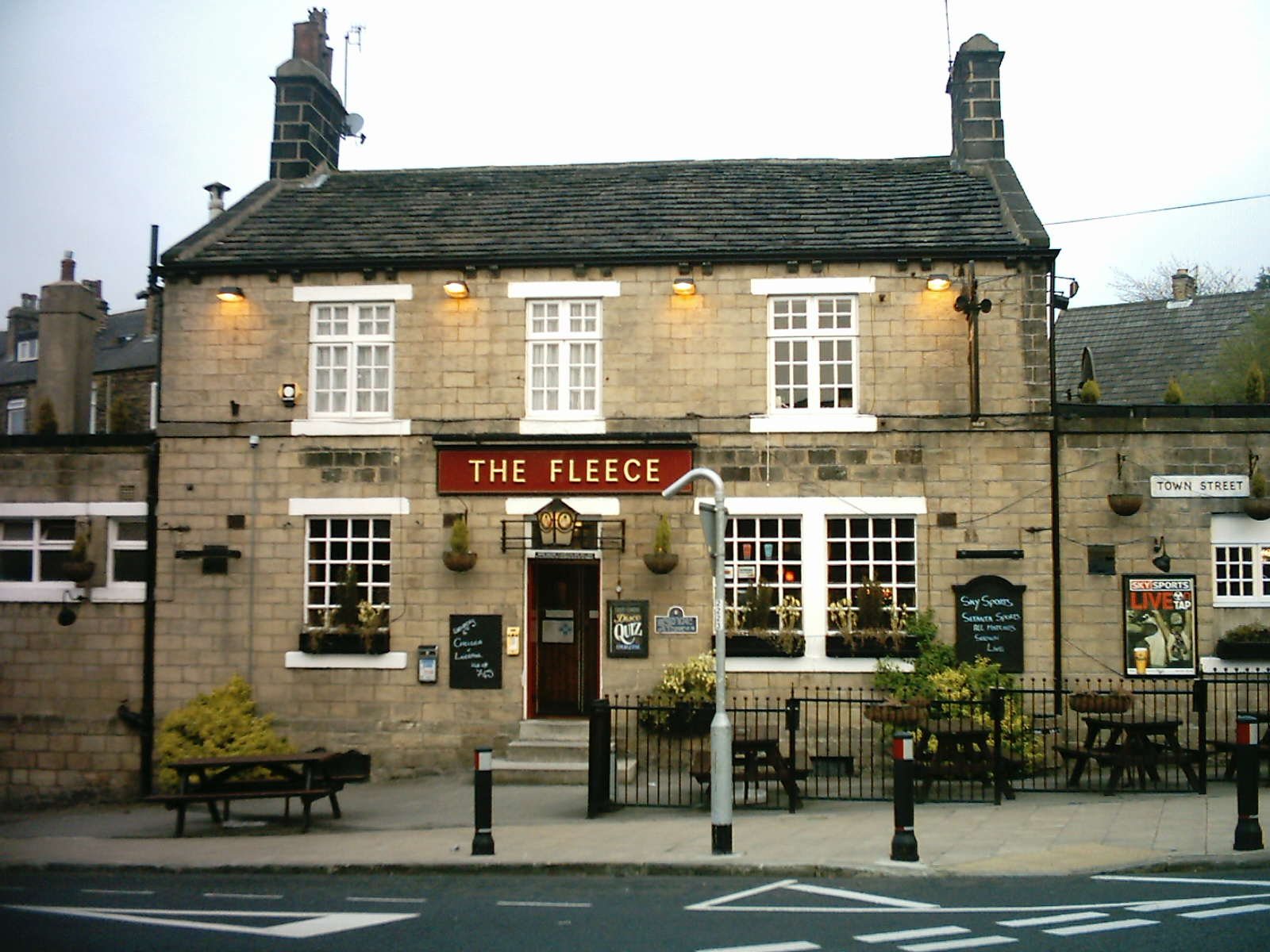 The Fleece public house in Farsley, Leeds, West Yorkshire, UK. Incidentally this was the first public house owned by Tetley's away from their own land. Taken on the 14th April 2009.